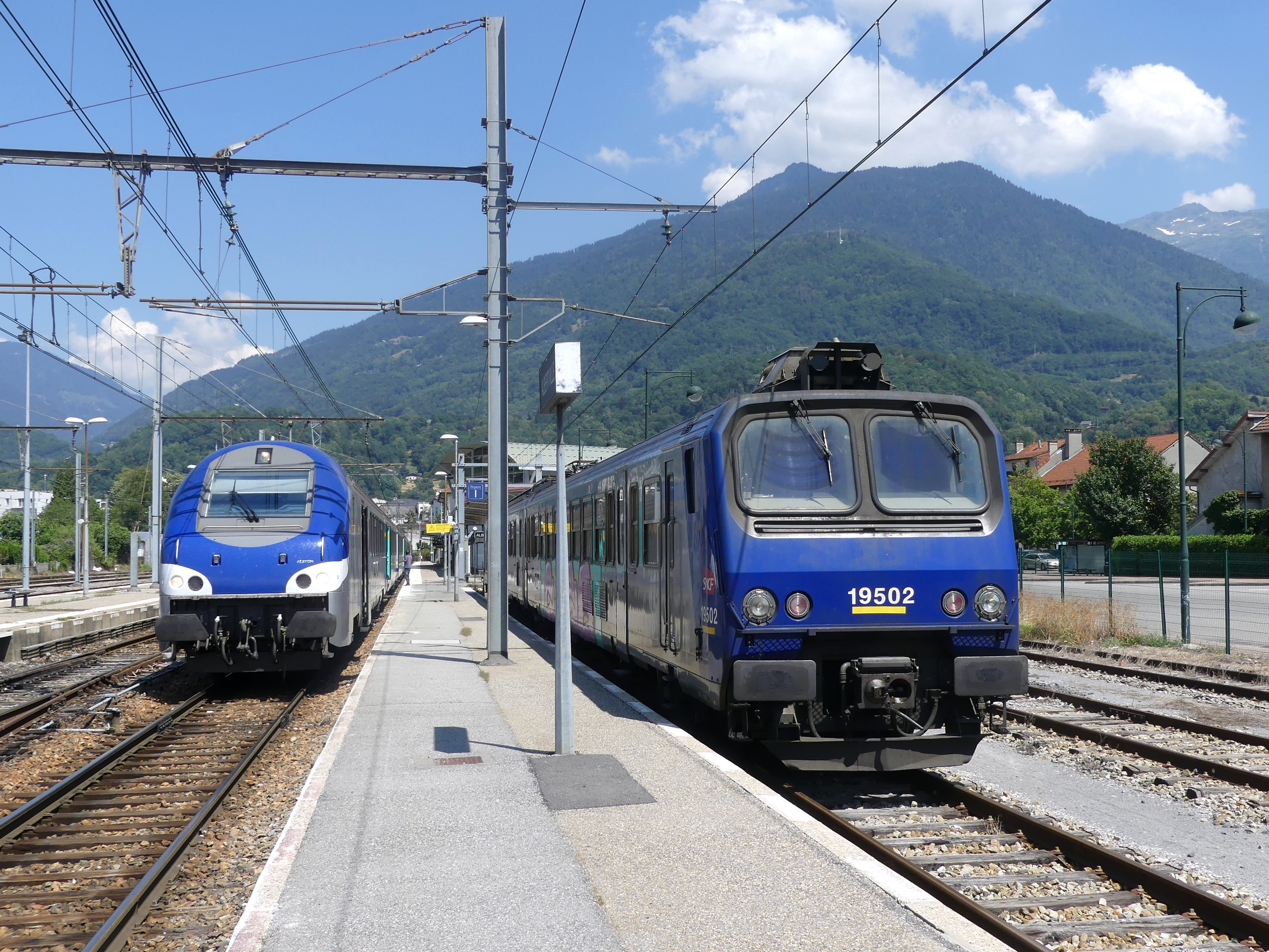 Sight of the French SNCF regional train n° 17905 arrived from Lyon and bound for Bourg-Saint-Maurice and a SNCF Class Z 9600, at Albertville railway station in Savoie.